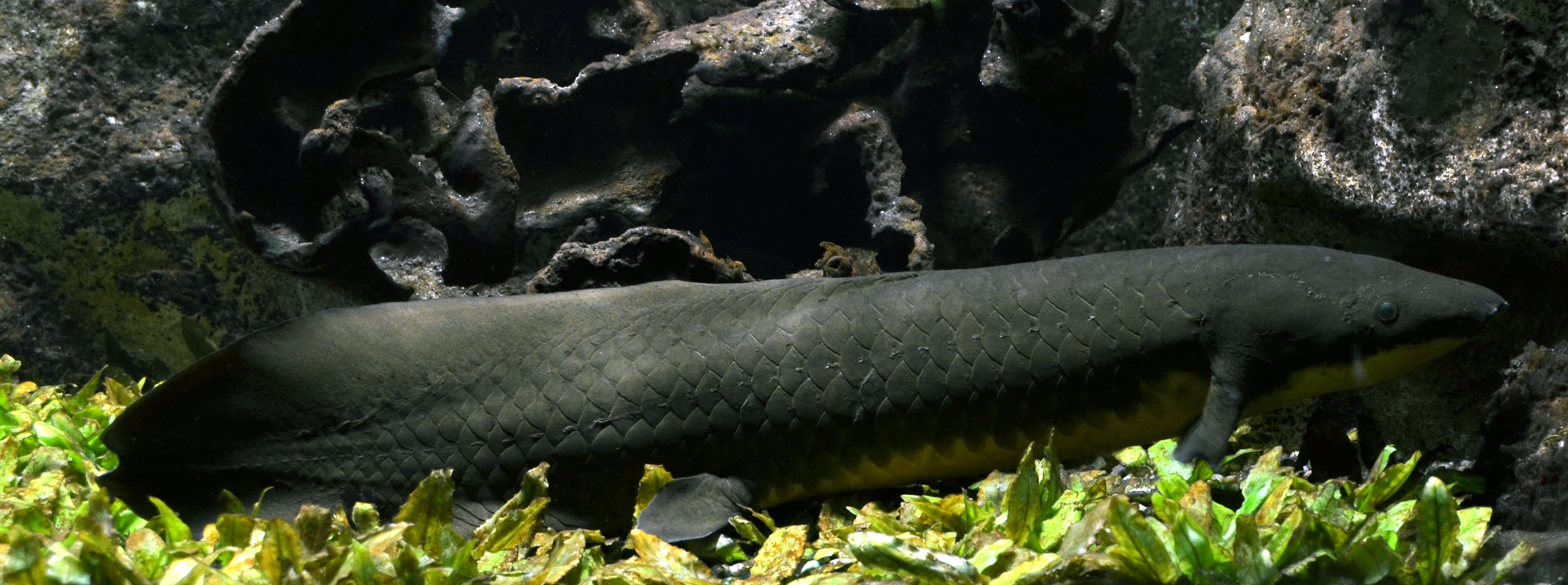 Australian lungfish ( Neoceratodus forsteri ). Aquarium tropical du Palais de la Porte Dorée, in Paris.